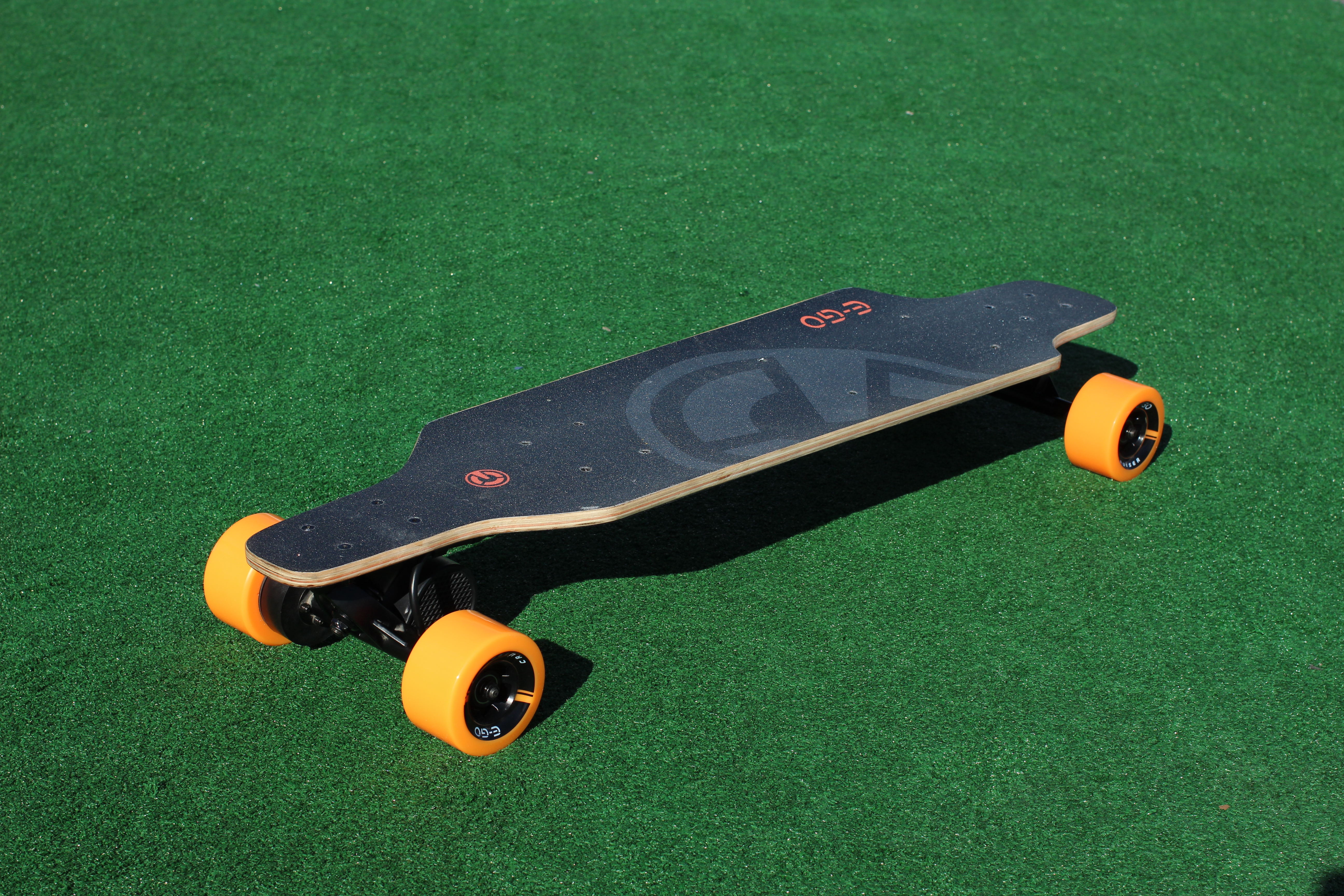 E-GO longboard